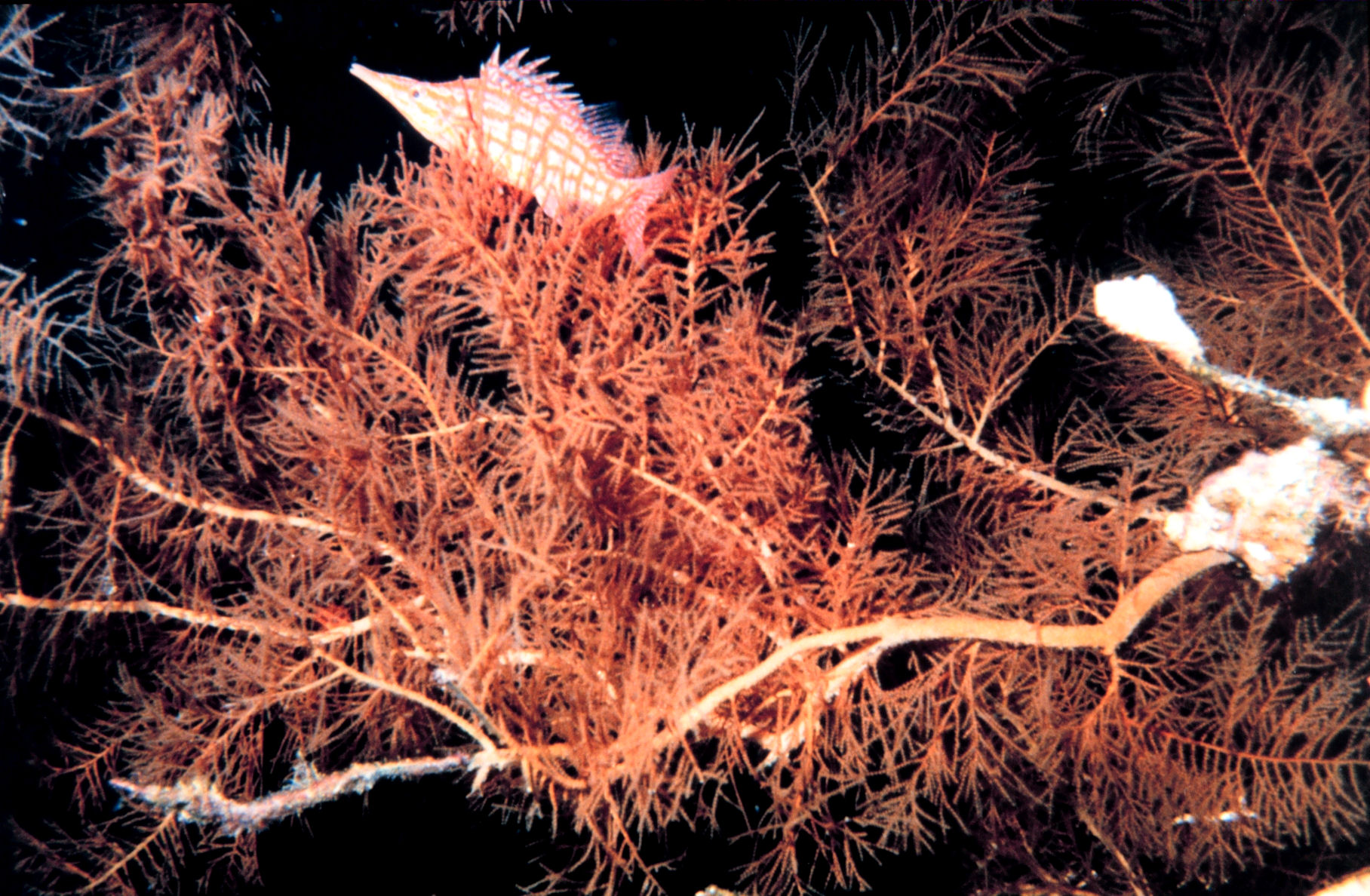 Oxycirrhites typus in the Gulf of Aqaba, Red Sea